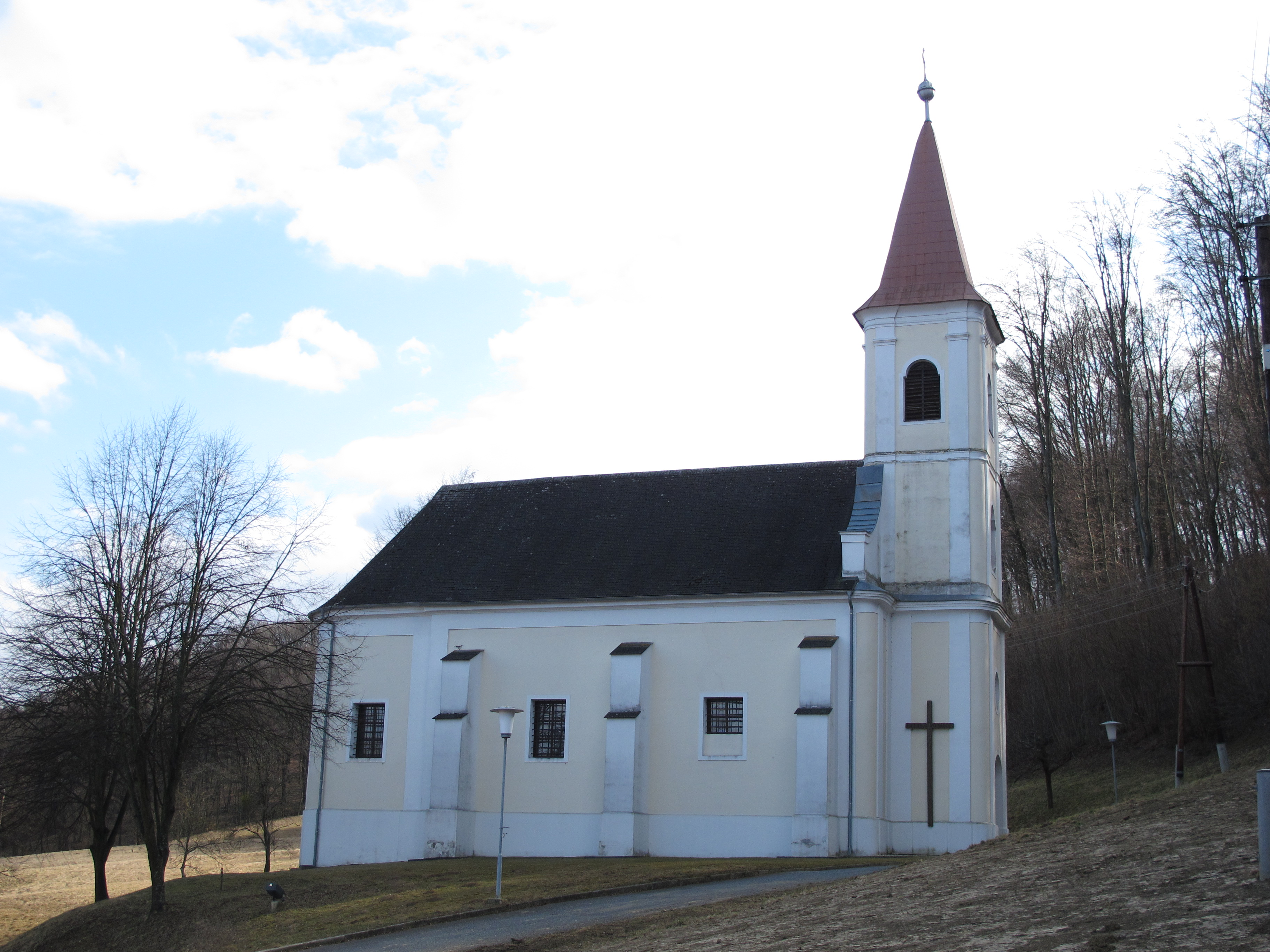 Pfarrkirche Heiligenbrunn